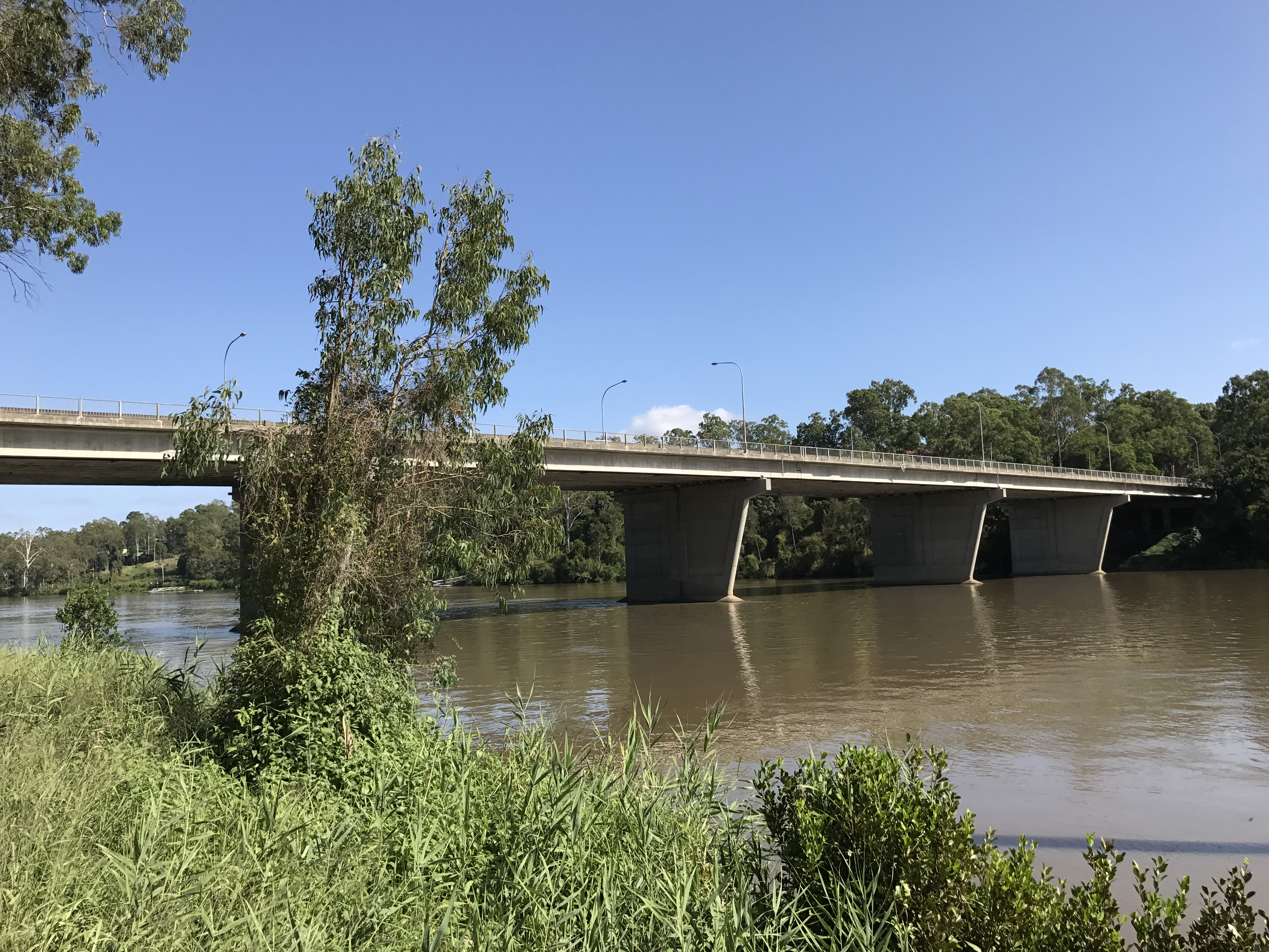 Centenary Bridge, Jindalee, Queensland